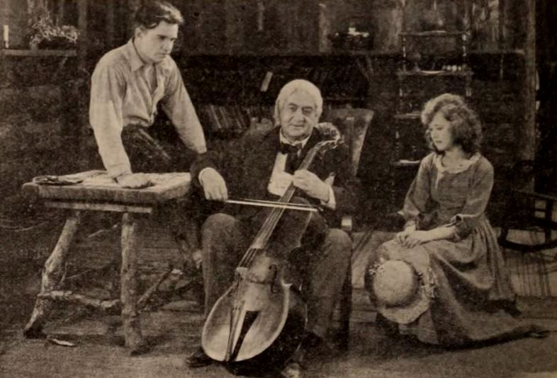 Still from the American drama film The Blue Moon (1920) with Pell Trenton, an unidentified actor, and Elinor Field, on page 52 of the November 6, 1920 Exhibitors Herald.